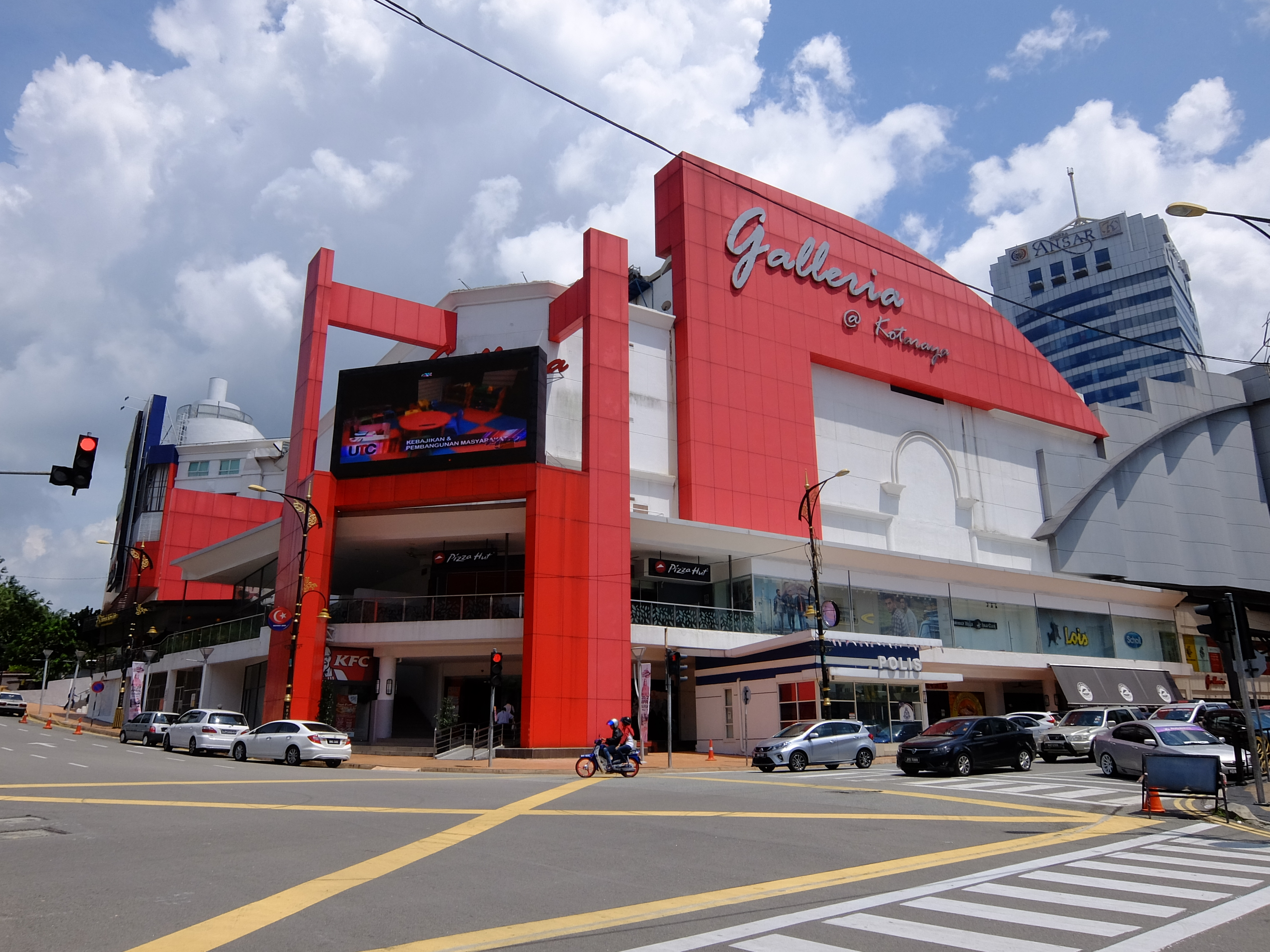 Galleria @ Kotaraya, Johor Bahru, Johor, Malaysia